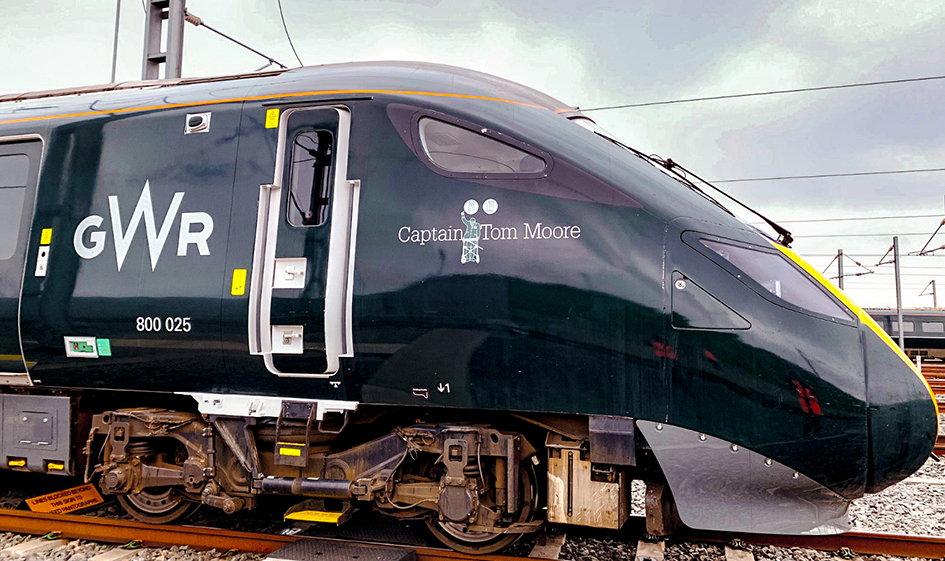 We are delighted to reveal that the new Intercity Express Train 800025 has been named Captain Tom Moore this morning for his remarkable fundraising achievements during #COVID19. This follows a huge amount of requests from staff and members of the public for him to be recognised.